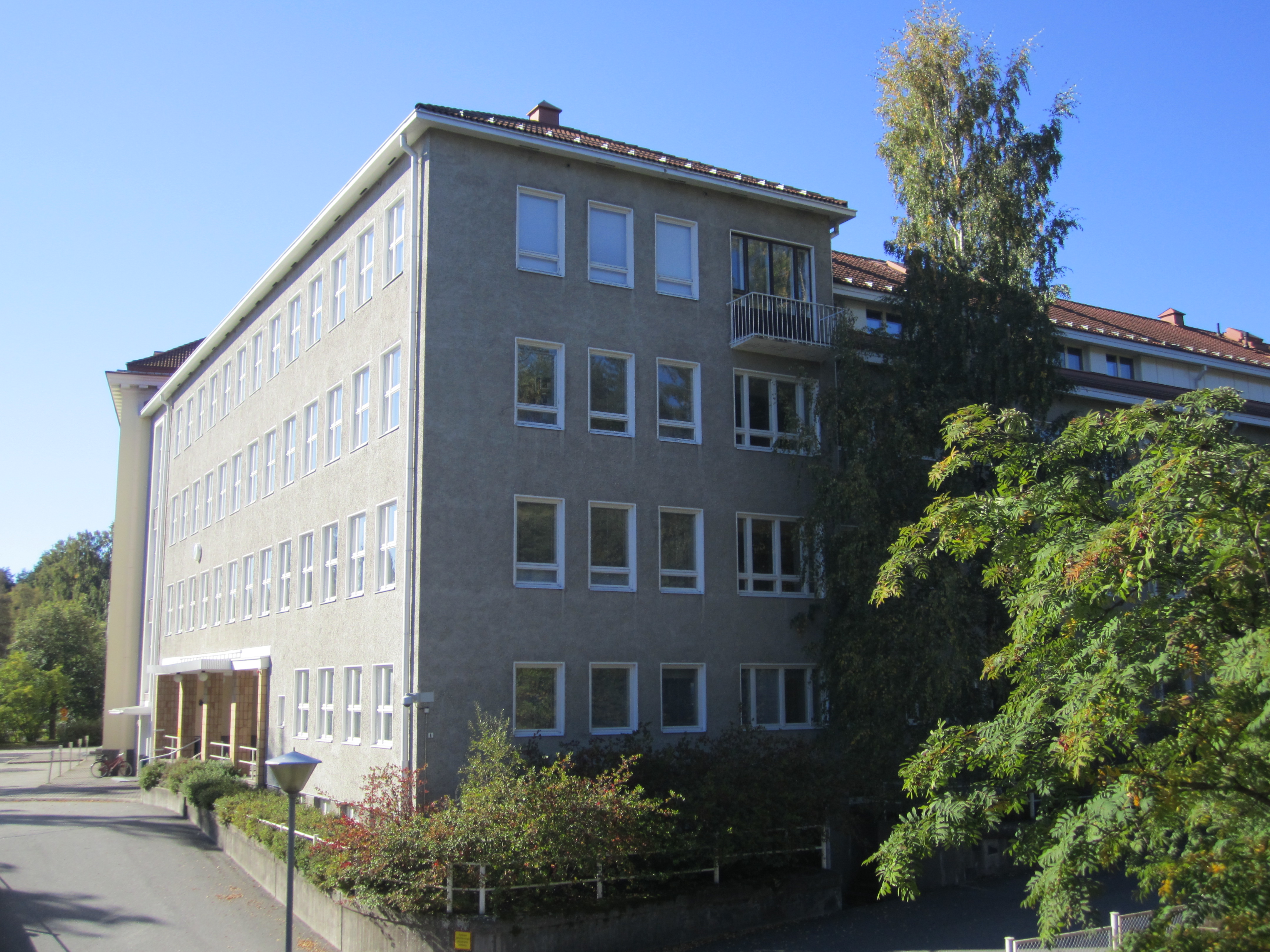 University of Jyväskylä Teacher Training School (Normaalikoulu), Yliopistonkatu 1, Harju, Jyväskylä, Finland.